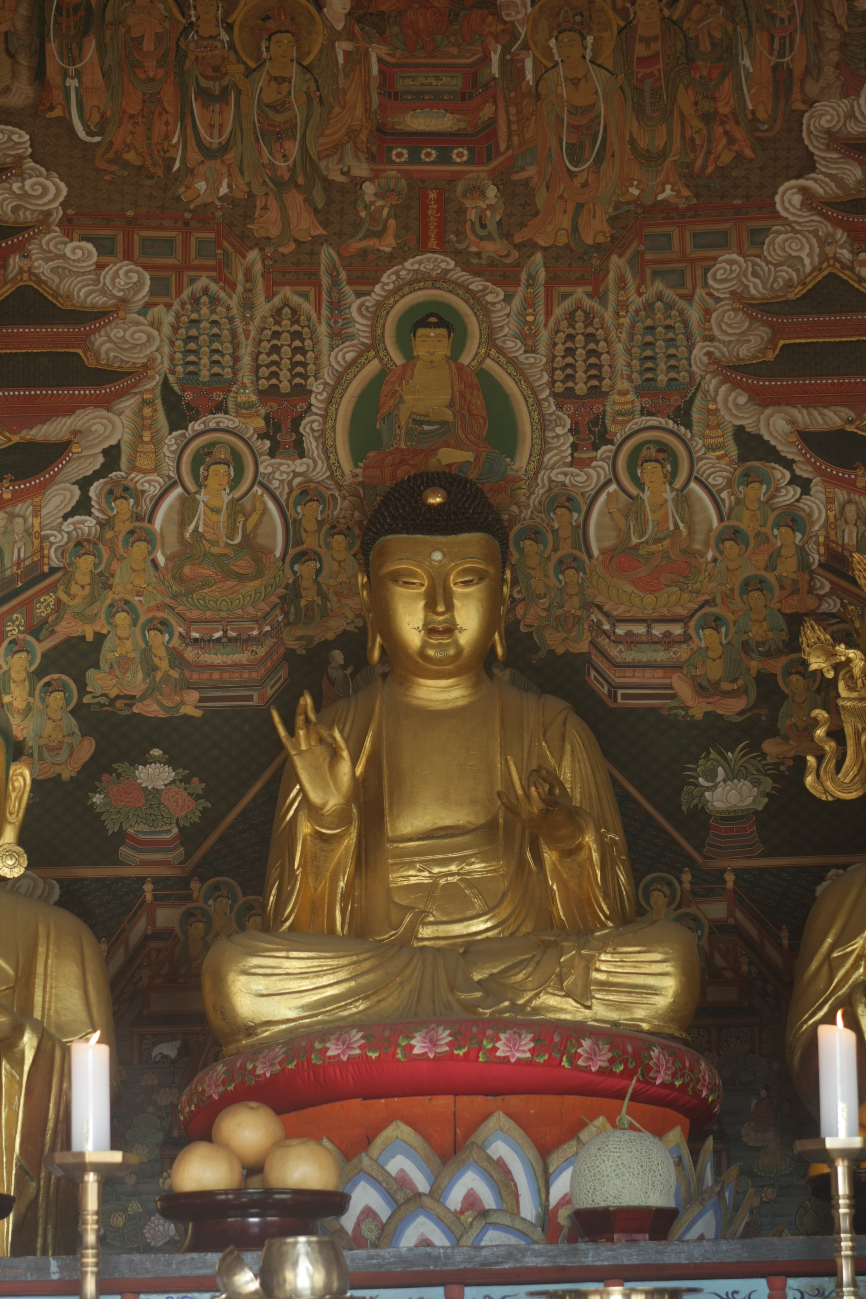 Wooden Seated Amitābha at Gaesimsa temple in Seosan, Korea